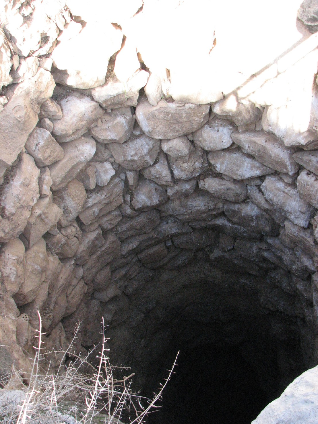 Well of the Tell ed-Duwe (Lachish)